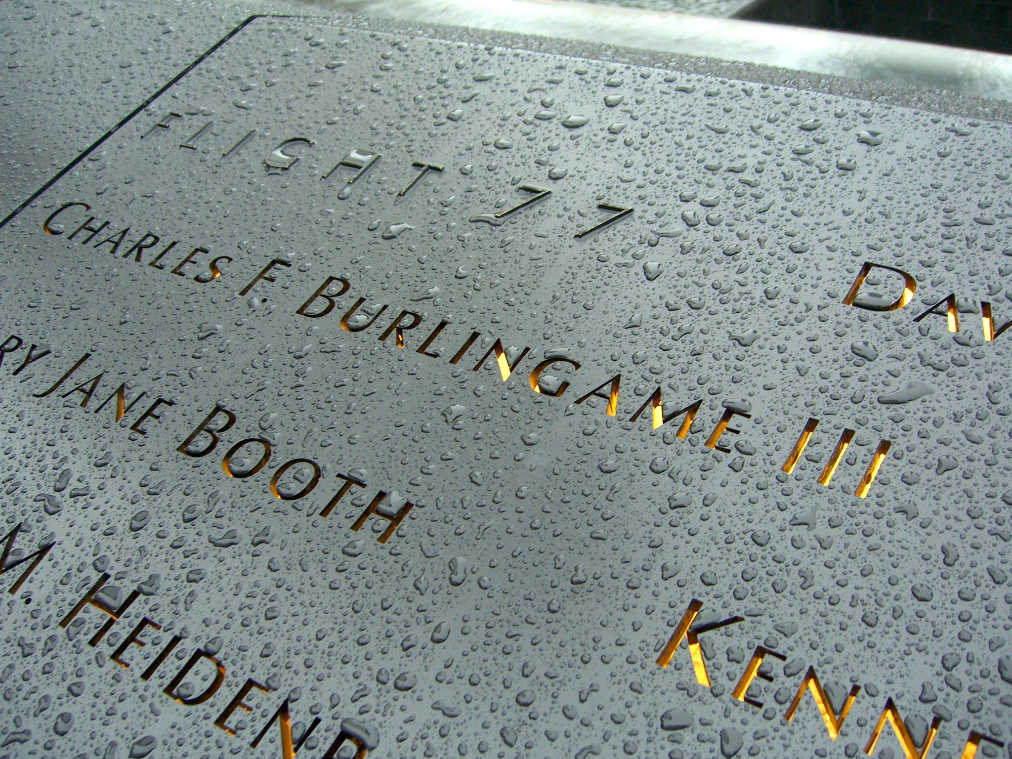 The name of Charles Burlingame is seen with those of other 9/11 victims from American Airlines Flight 77 inscribed on bronze panel S-69 of the South Pool of the National September 11 Memorial in Manhattan, on December 6, 2011. This photo was created by Luigi Novi. If you have any questions, you can contact me by sending me an email or User talk:Nightscream